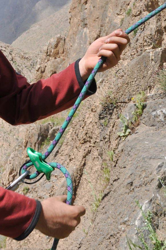 Petzl reverso 3 in use by climbers from Arak.